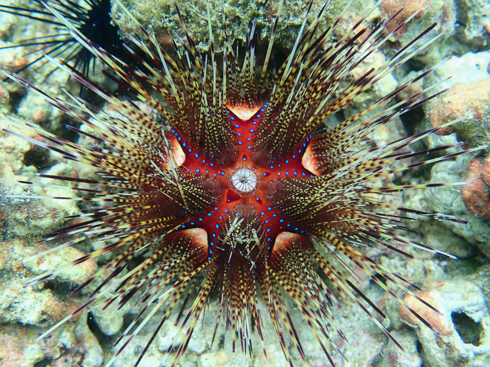 Astropyga pulvinata observed in Coiba National Park, Panama.